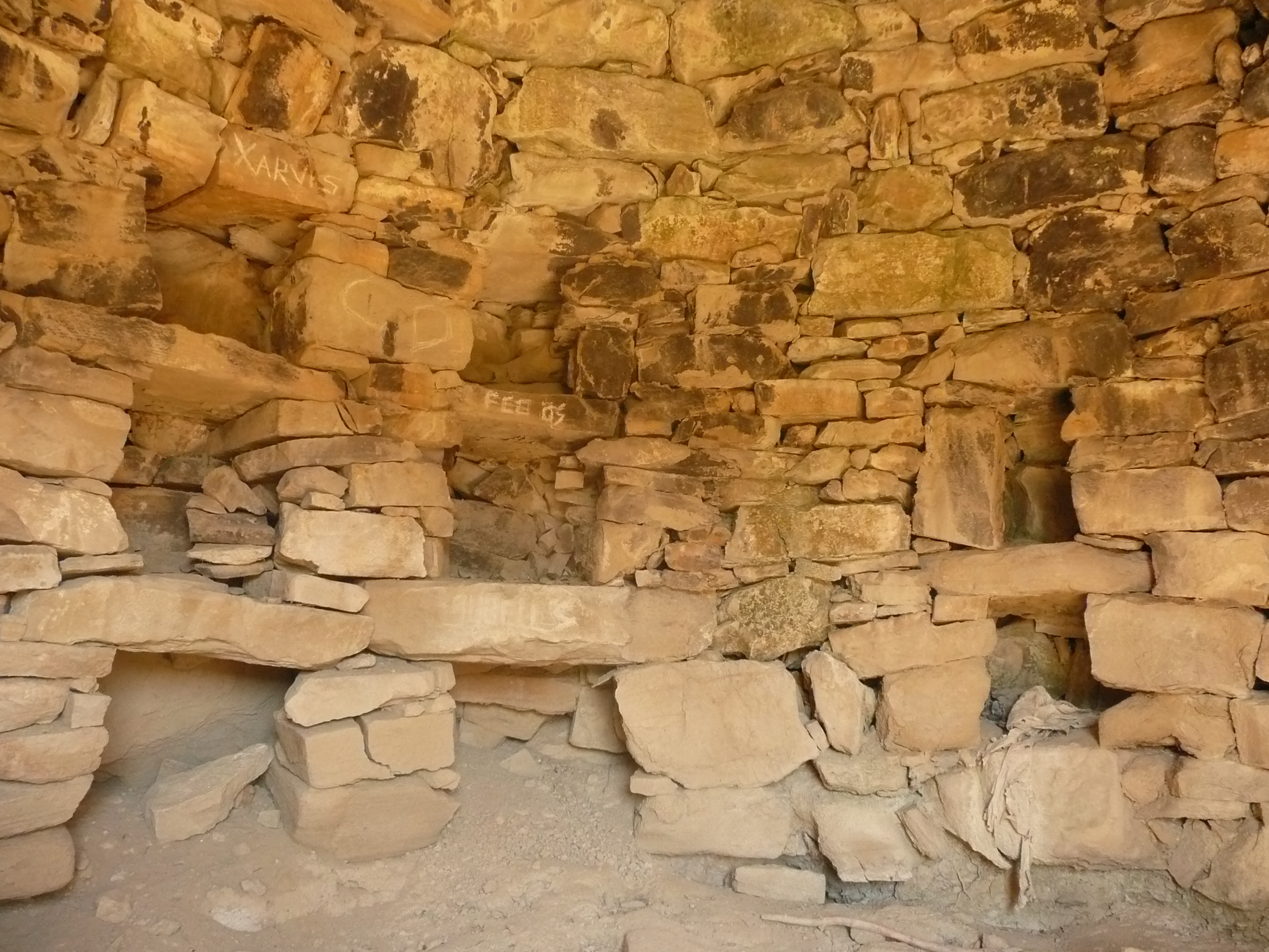 A look inside the vineyard's hut.